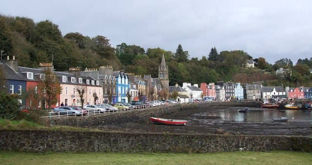 Tobermory Harbour The famous, colourful row of shops and houses that front onto Tobermory's harbour.